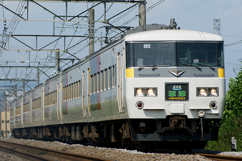 JR East 185-200 series EMU on limited express "Kusatsu" service